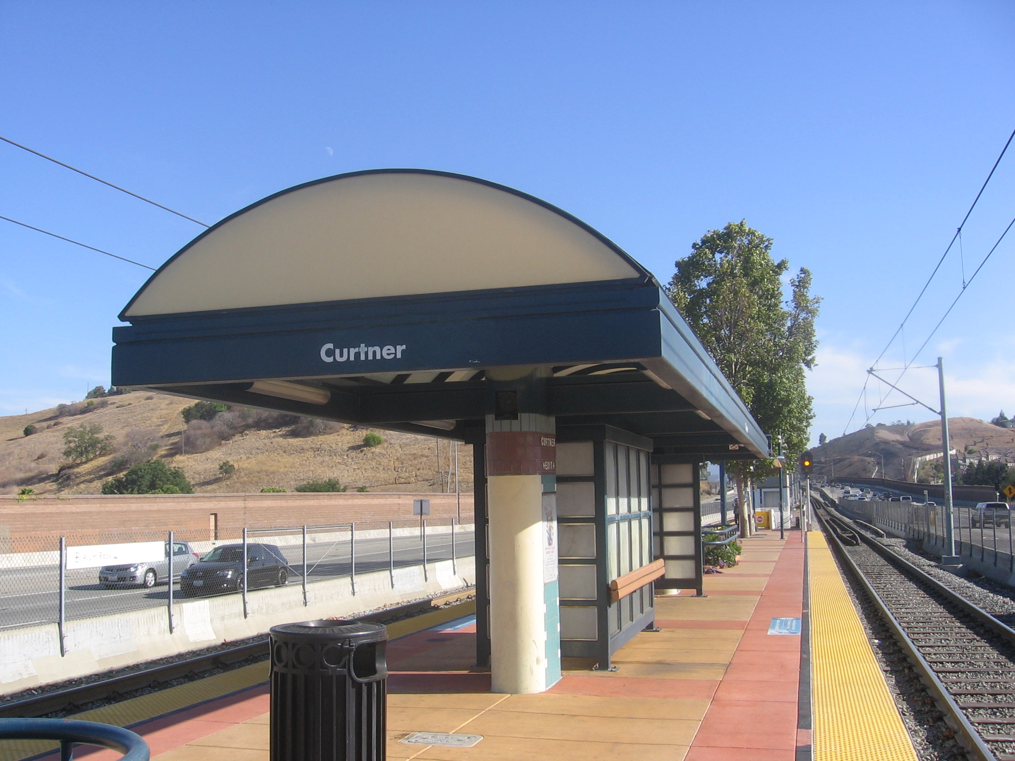 The Curtner (VTA) light rail station in San José, California, USA.